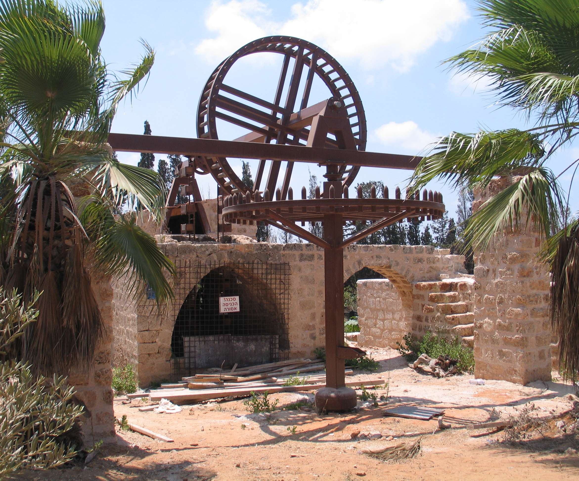 Binyamina, Israel.